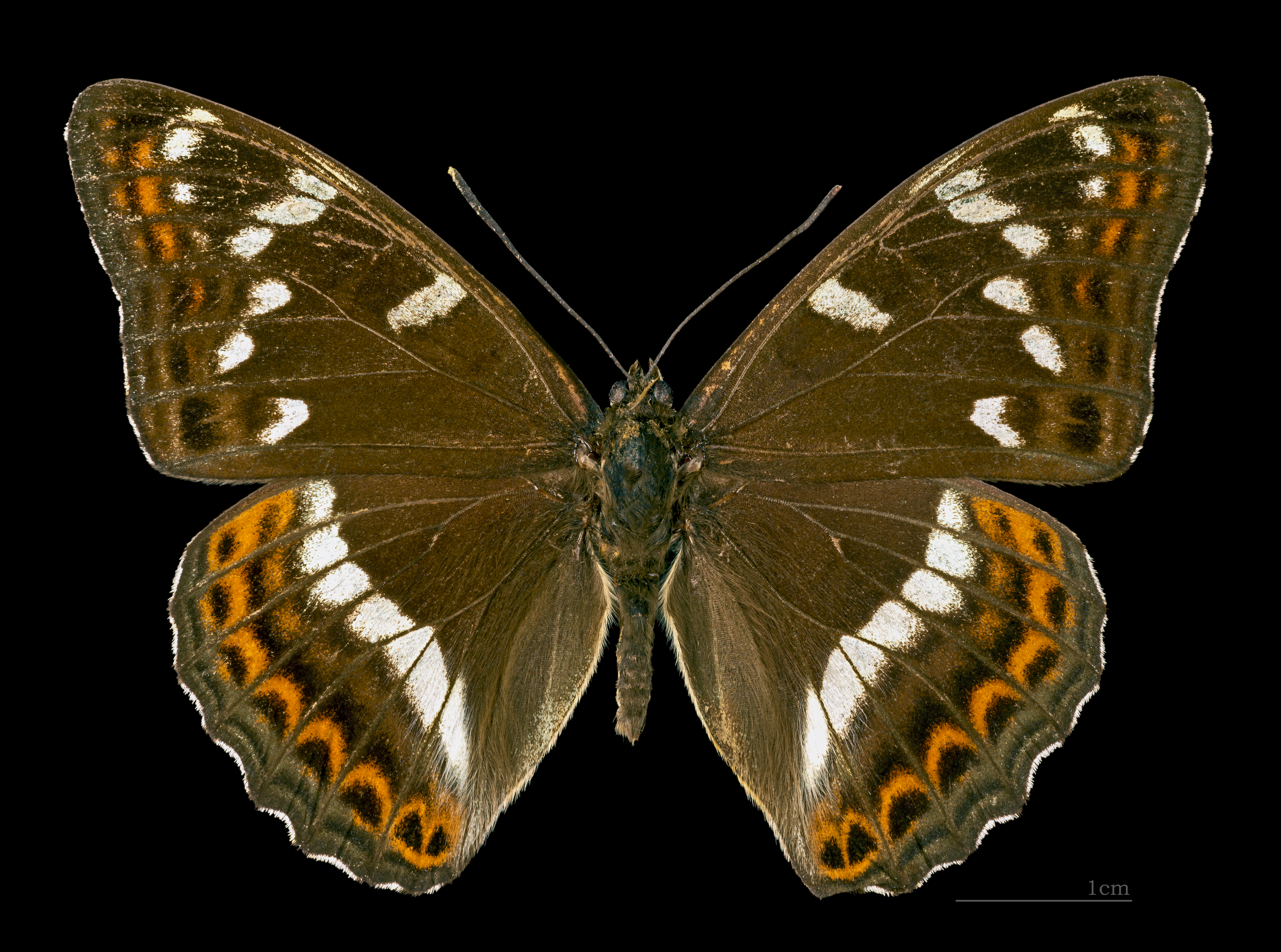 Poplar admiral - Dorsal side